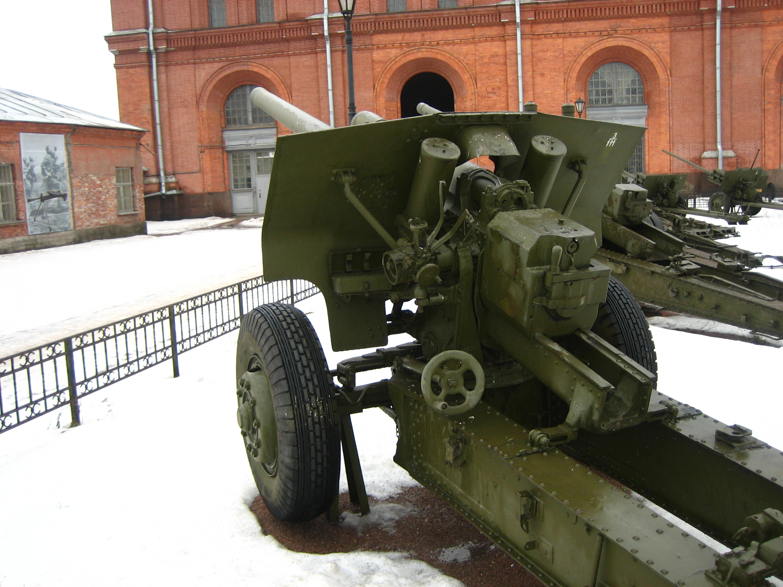 Soviet 107 mm M-60 Mark 1940 gun, displayed in Saint Petersburg Artillery Museum. Photo taken on 3 Marсh, 2007. Source: Photo by me, User:Saiga20K.